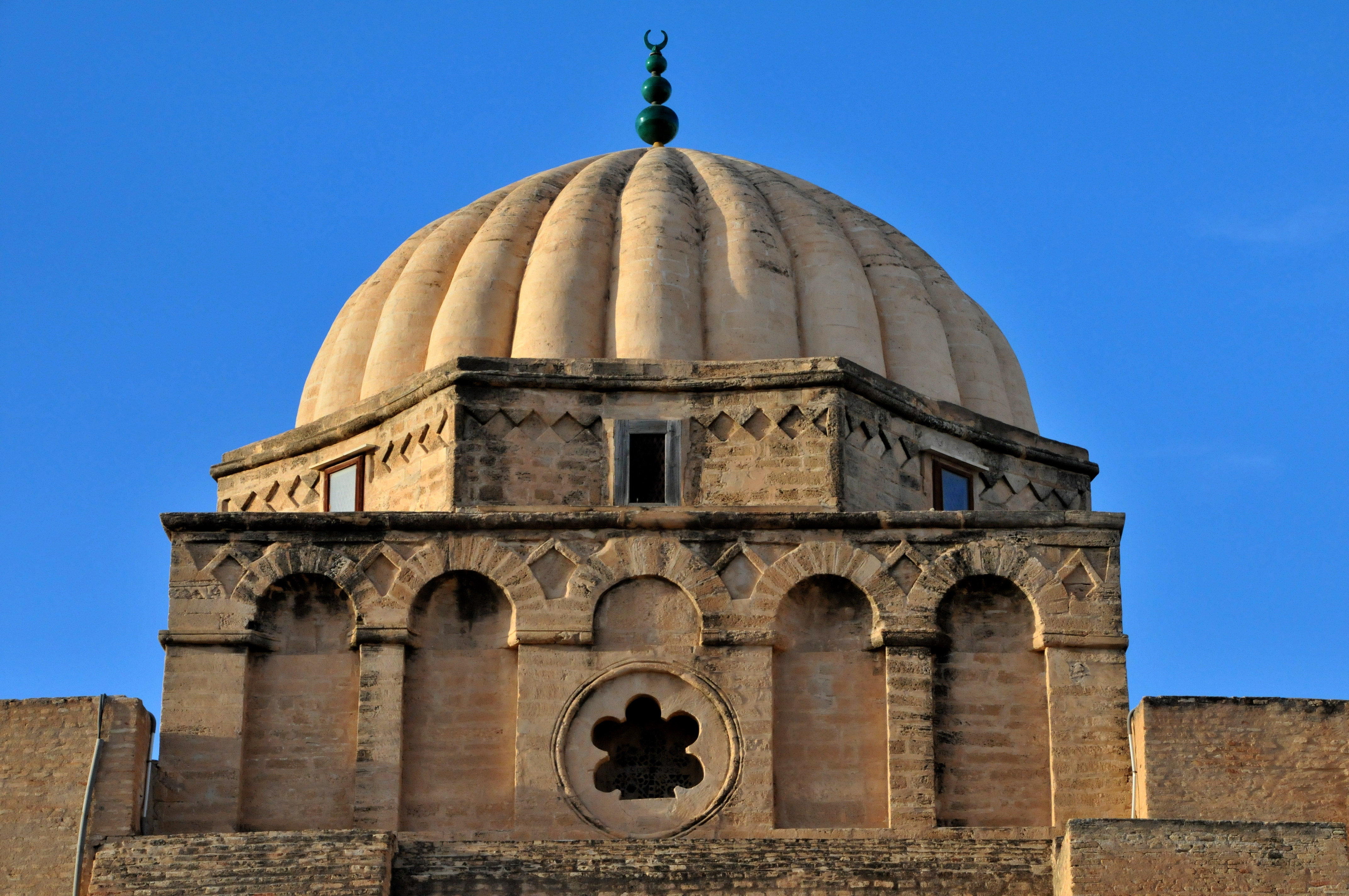 Exterior view of the cupola of the mihrab, in the Great Mosque of Kairouan, Tunisia.